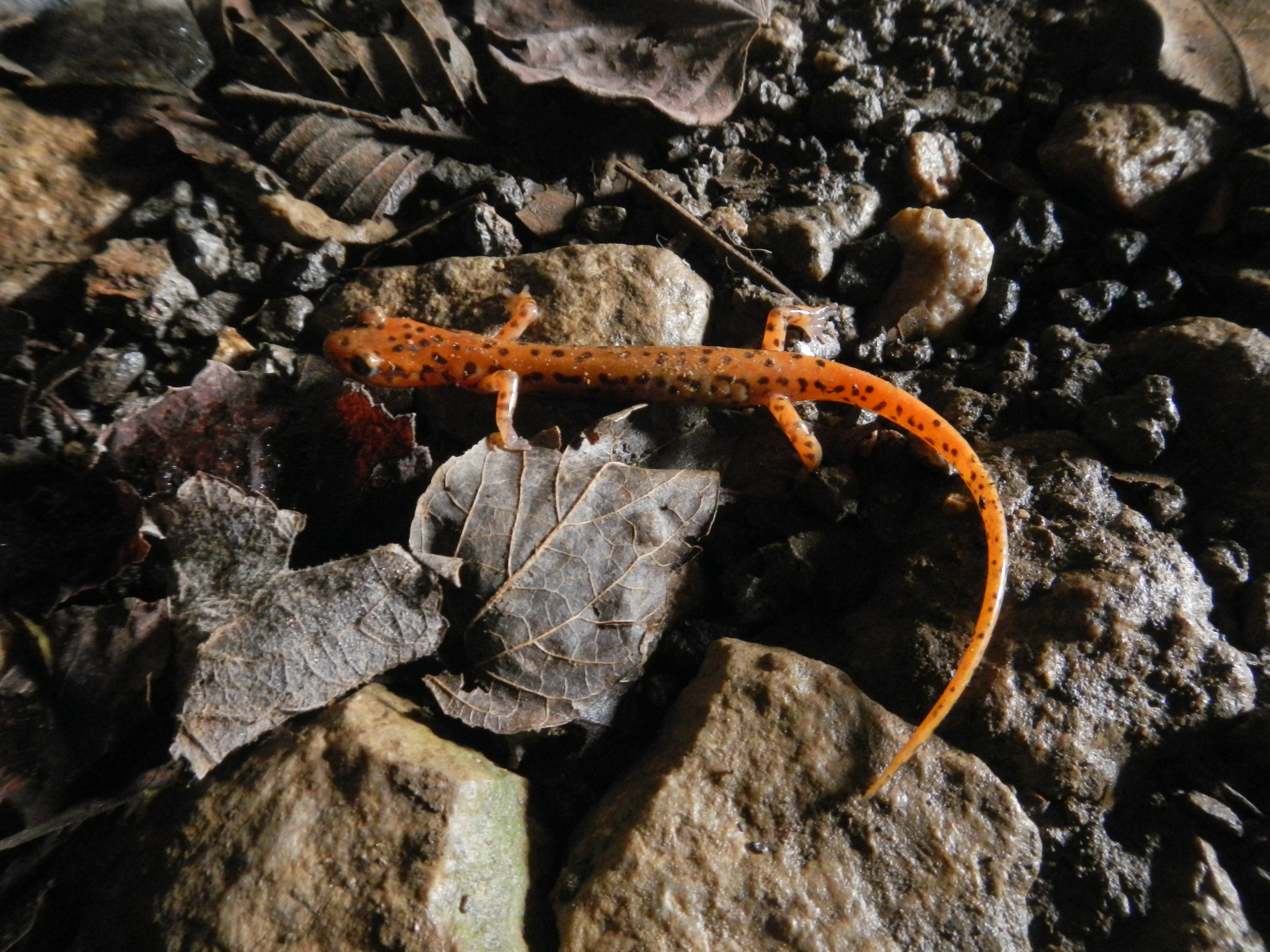 A cave salamander (Eurycea lucifuga) in Minke Quarry in Tyson Research Center, Missouri